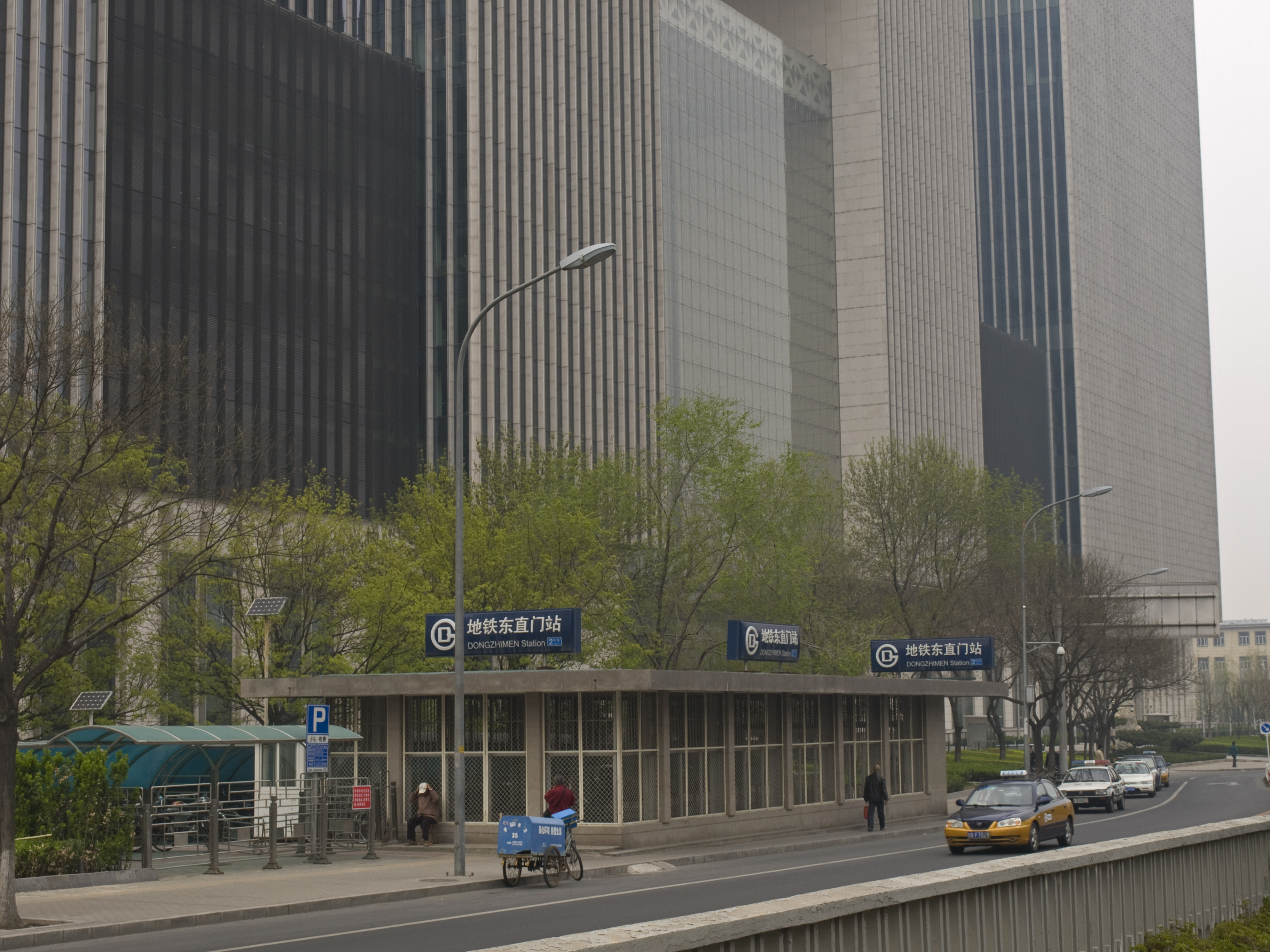 Exit of Dongzhimen station, Beijing subway